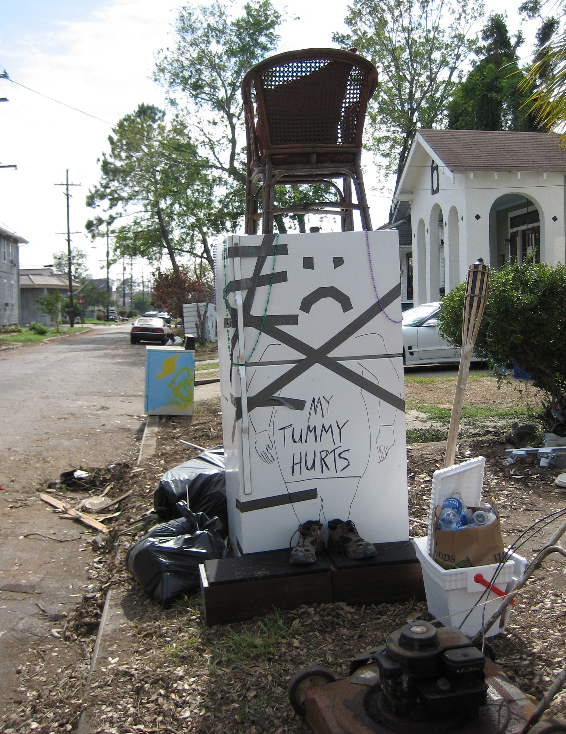 Folk art on dead refrigerator, Uptown New Orleans Aftermath of Hurricane Katrina